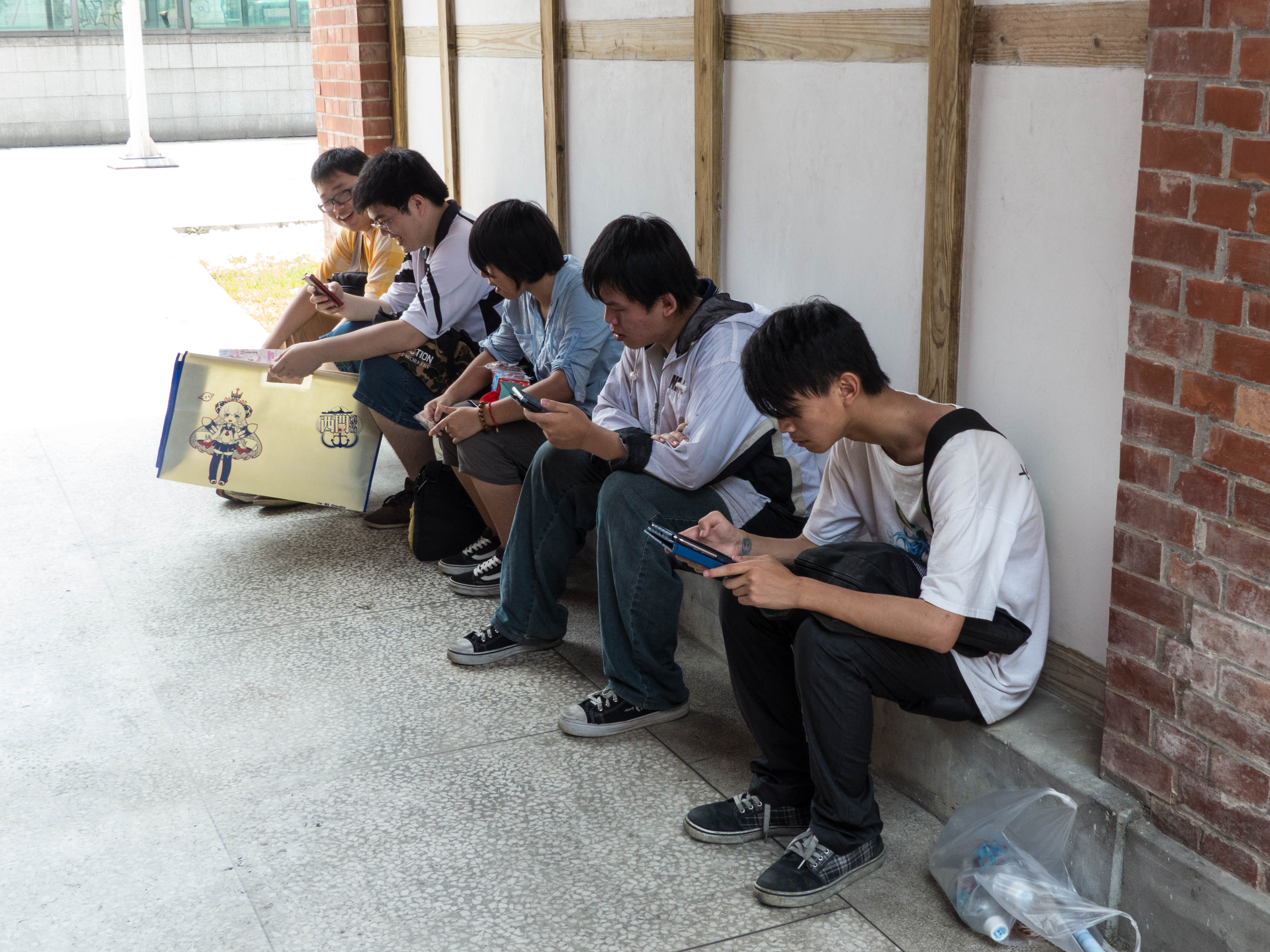 People using their smartphones in Taiwan.